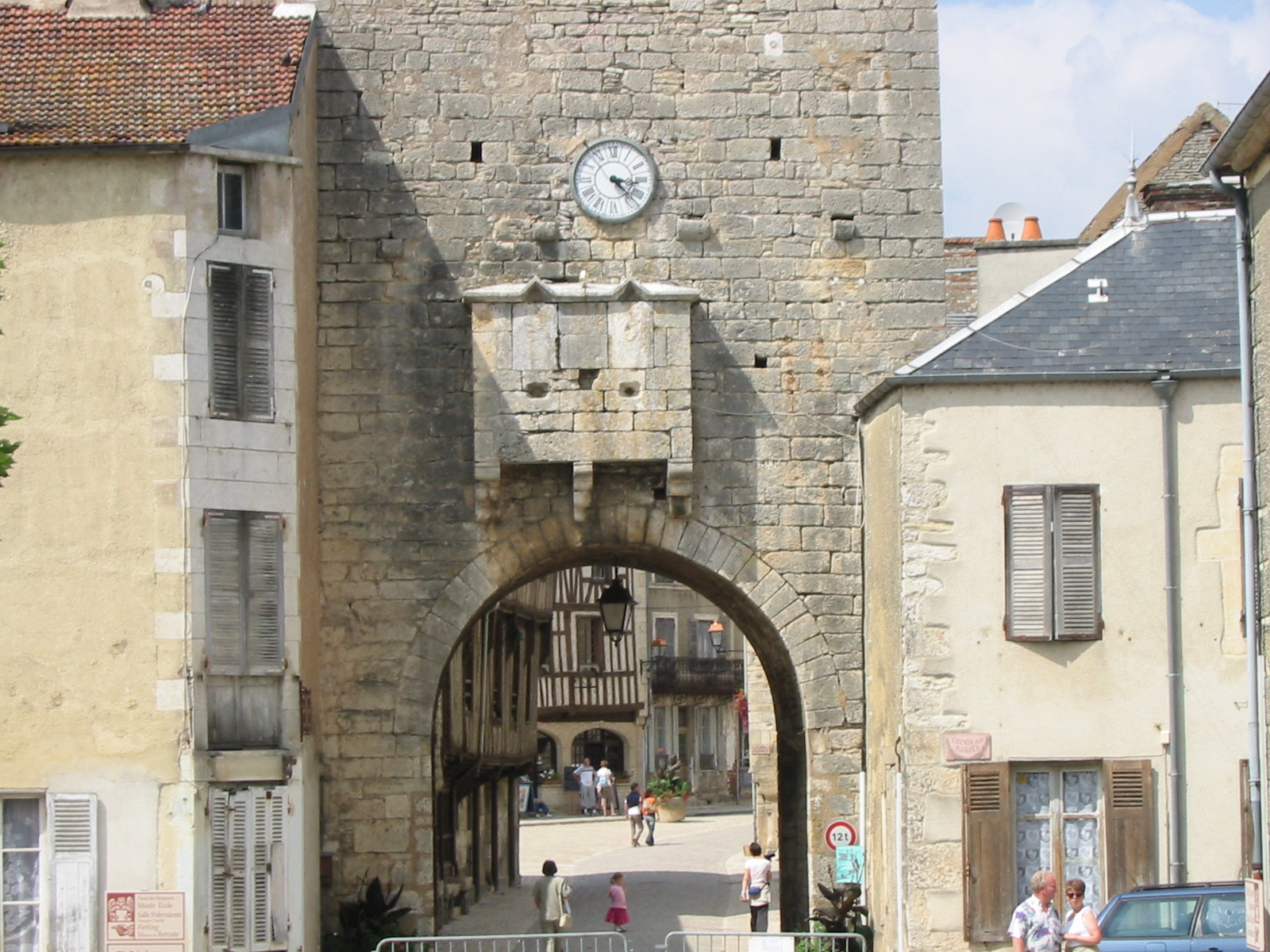 City gate with brattice and facade clock, Noyers-sur-Serein, Yonne, Bourgogne, France.